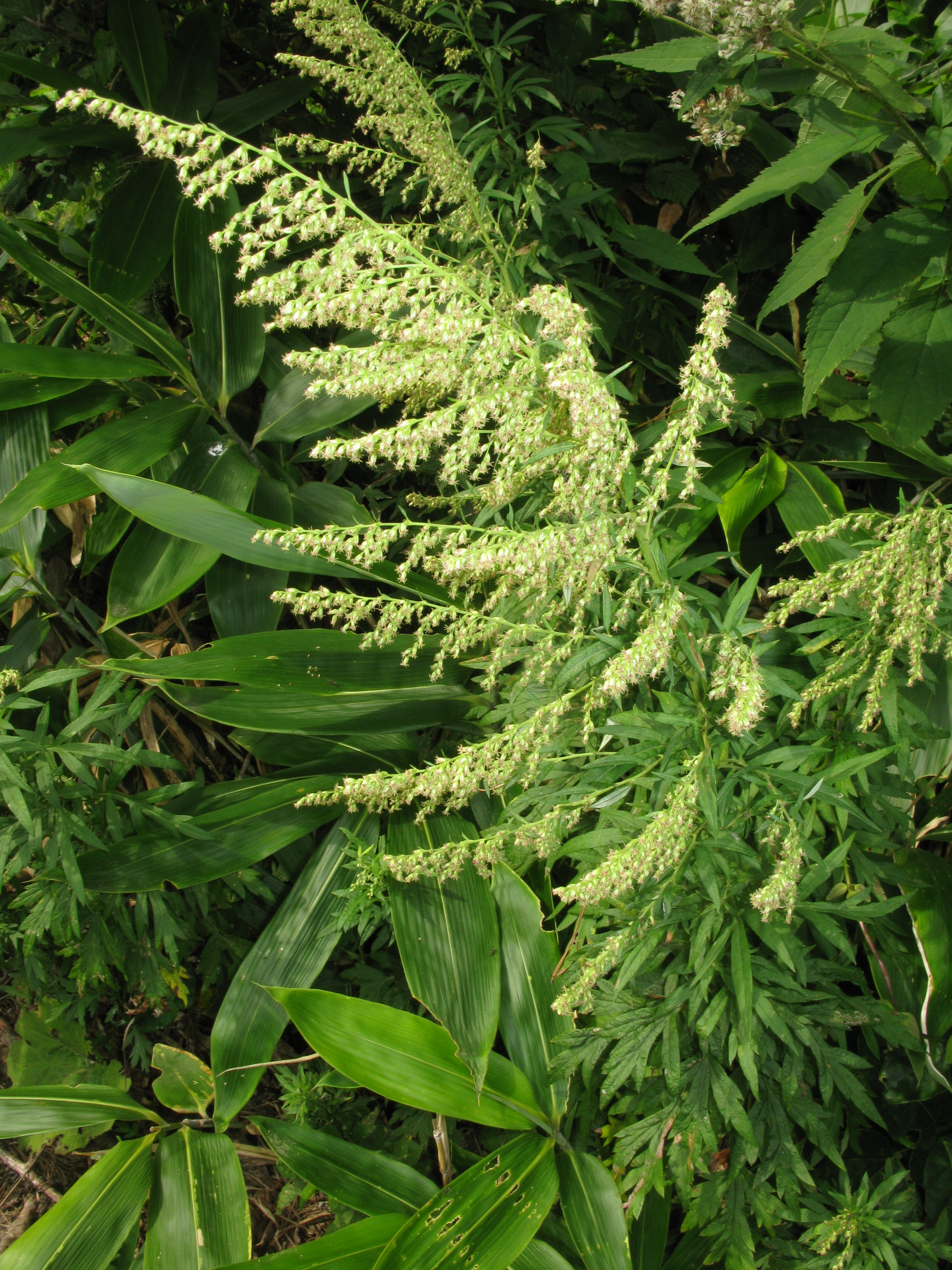 Artemisia princeps, Aizu area, Fukushima pref., Japan